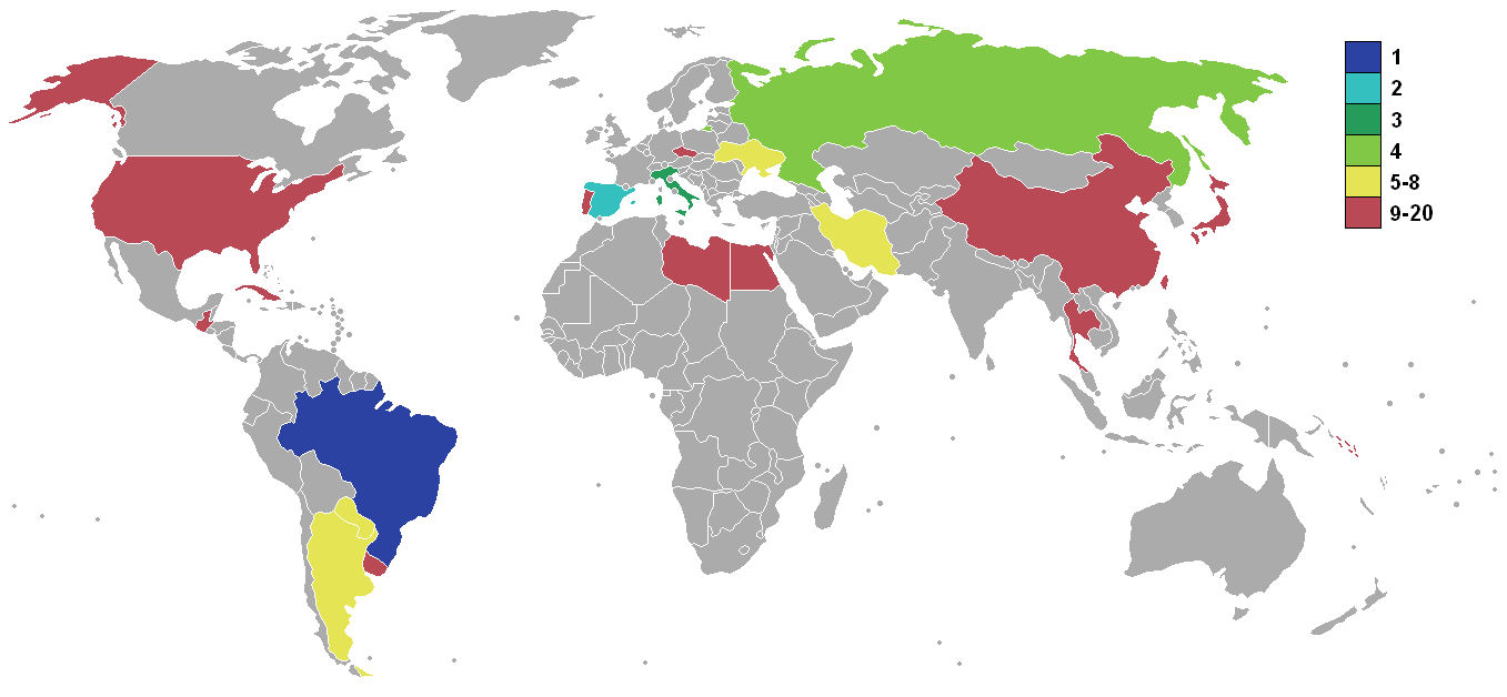 2008 FIFA Futsal World Championship